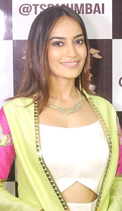 Surbhi Jyoti graces Pre Diwali bash at The Stadium Bar